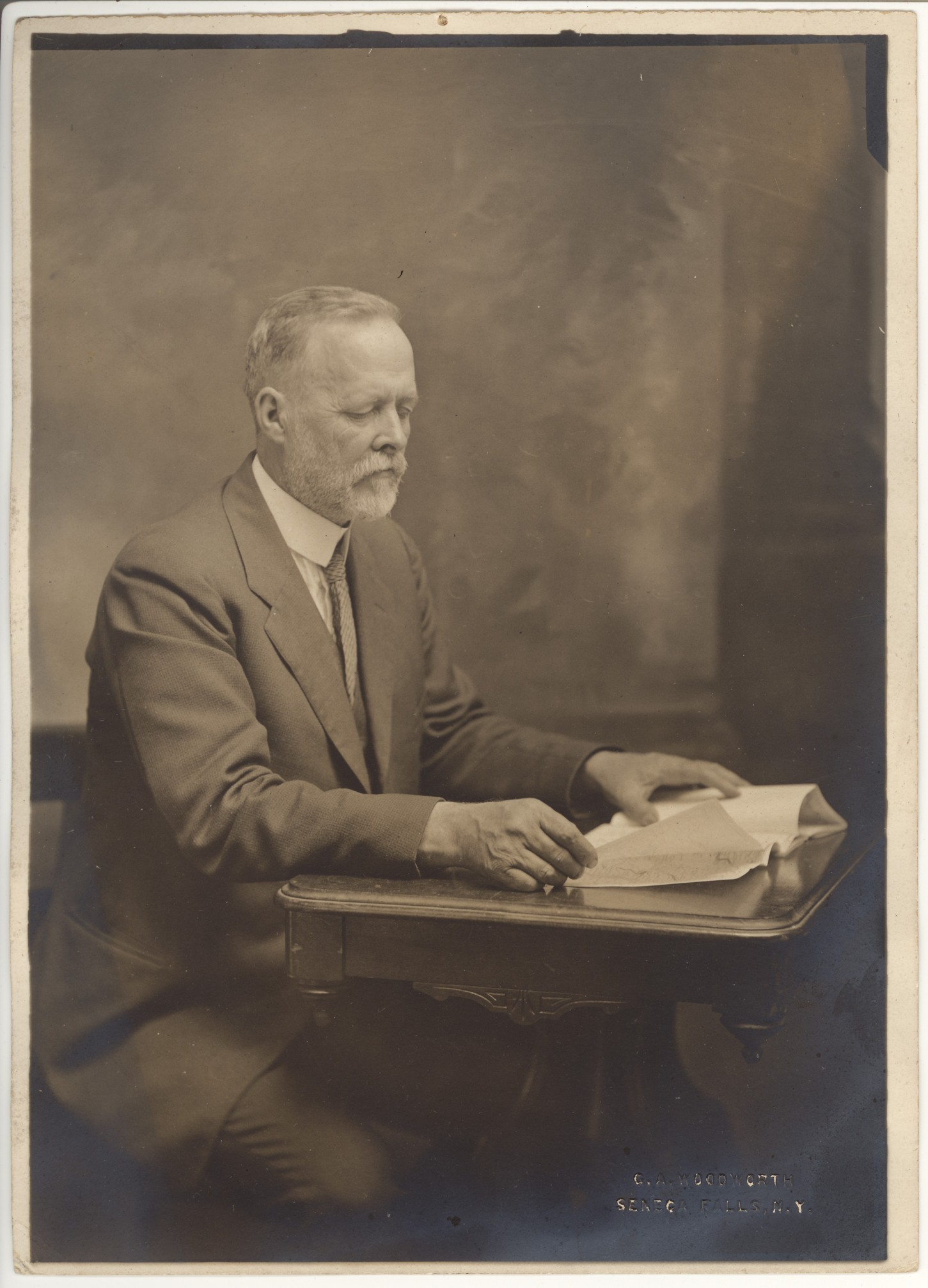 Photograph of a seated man reading.